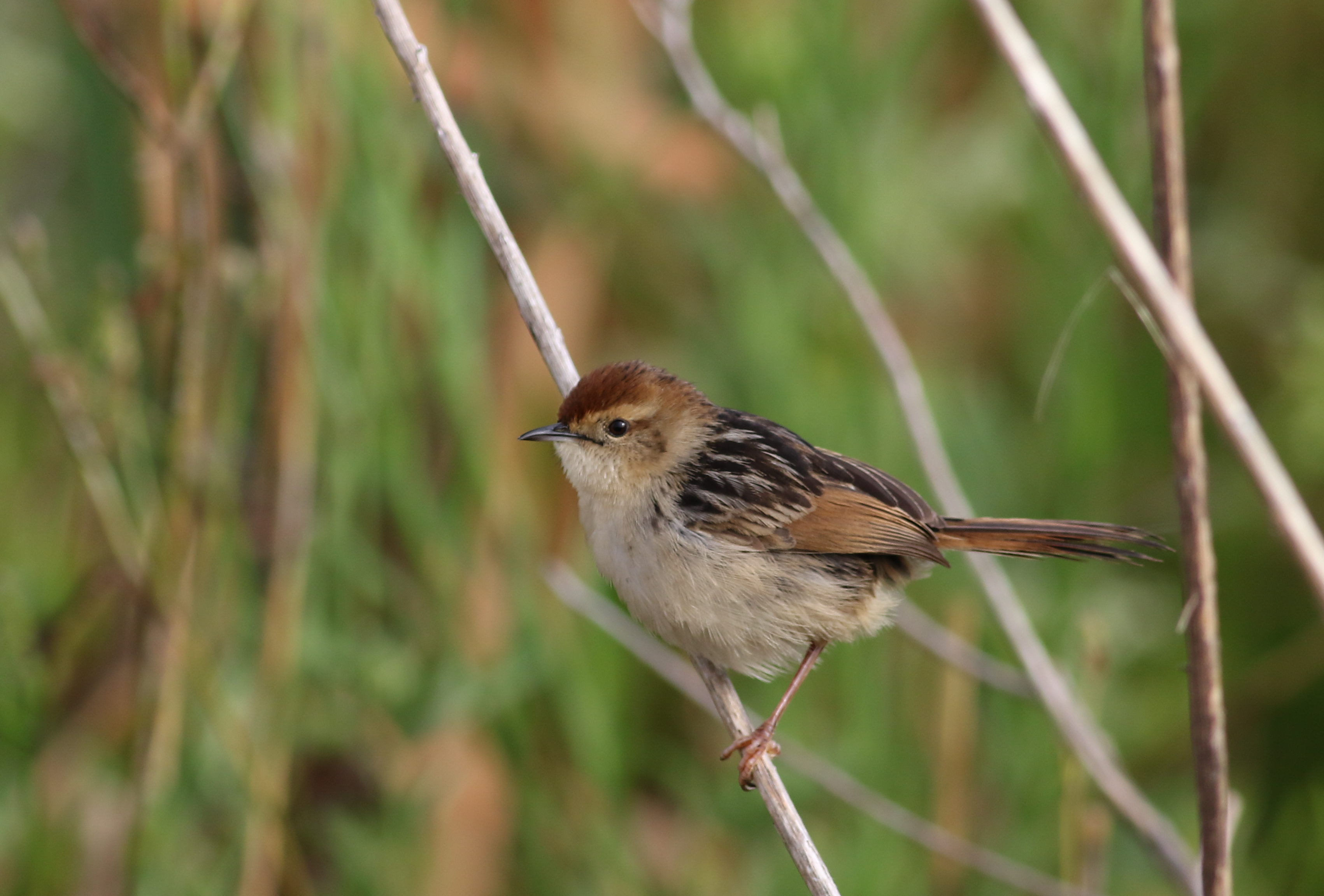 Levaillant's Cisticola, Cisticola tinniens at Marievale Nature Reserve, South Africa